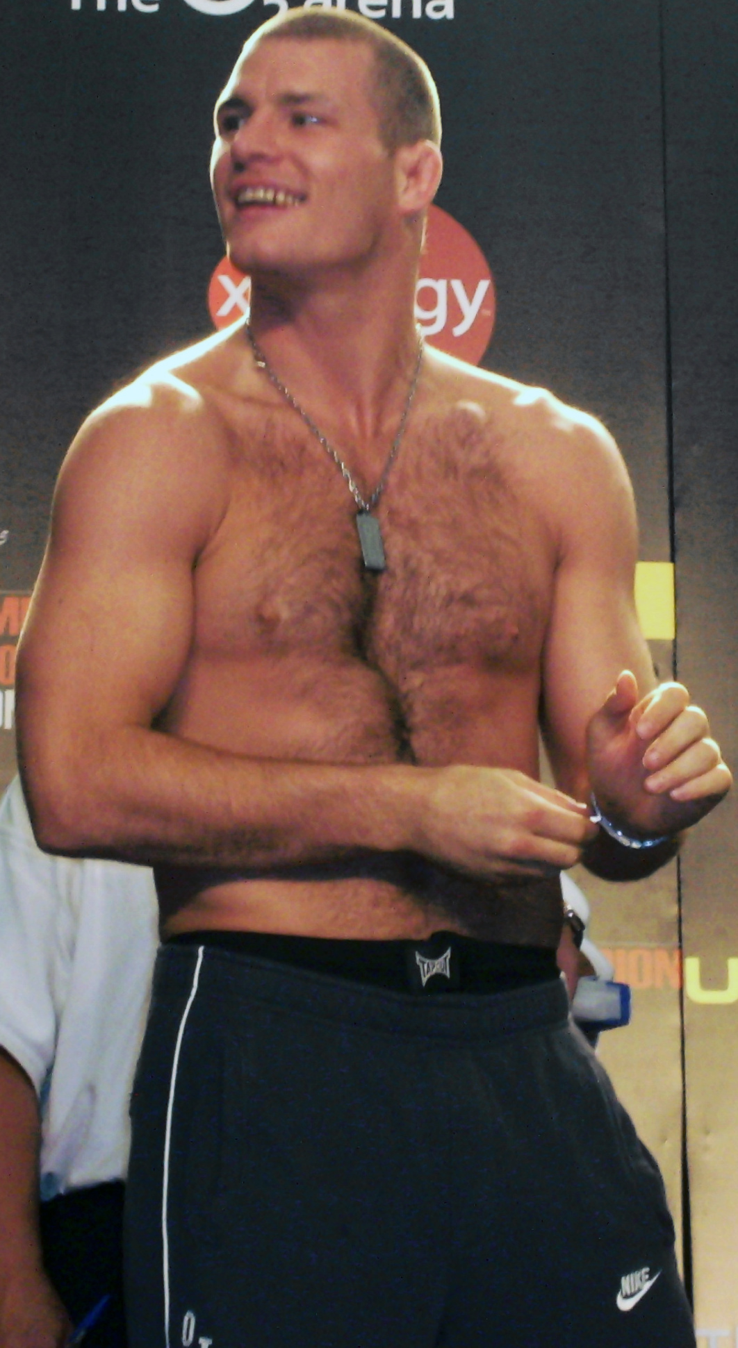 Source: Cropped from original image on Flickr.